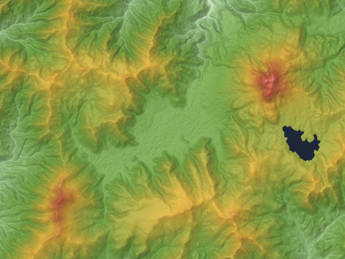 Oze in the border between Niigata and Niigata Prefectures, Honshu, Japan.